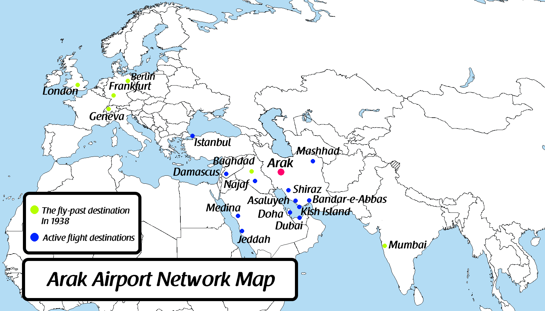 Arak Airport Network Map